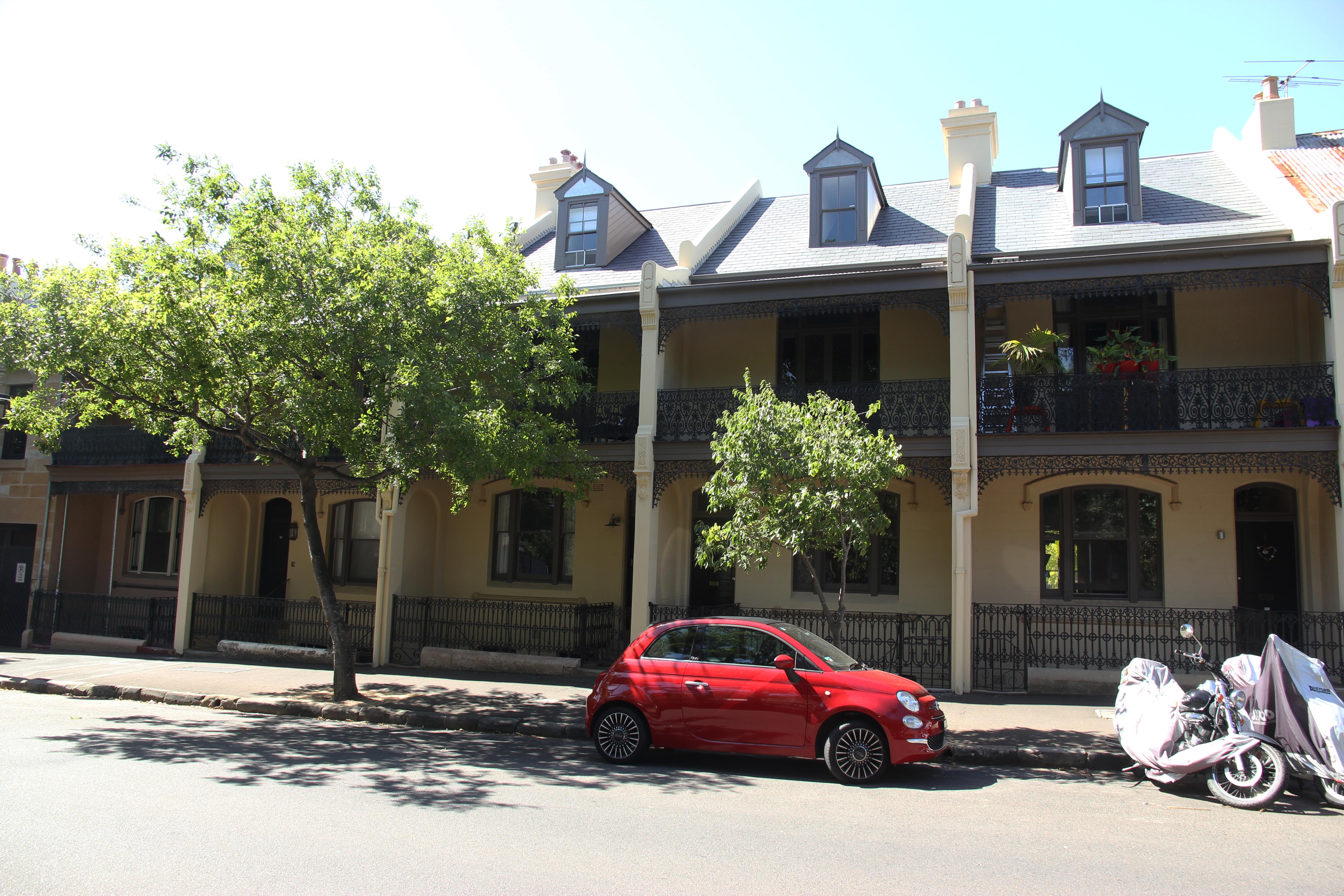 Part of Undercliffe Terrace, 52-60 Argyle Place, Millers Point, City of Sydney, New South Wales, Australia